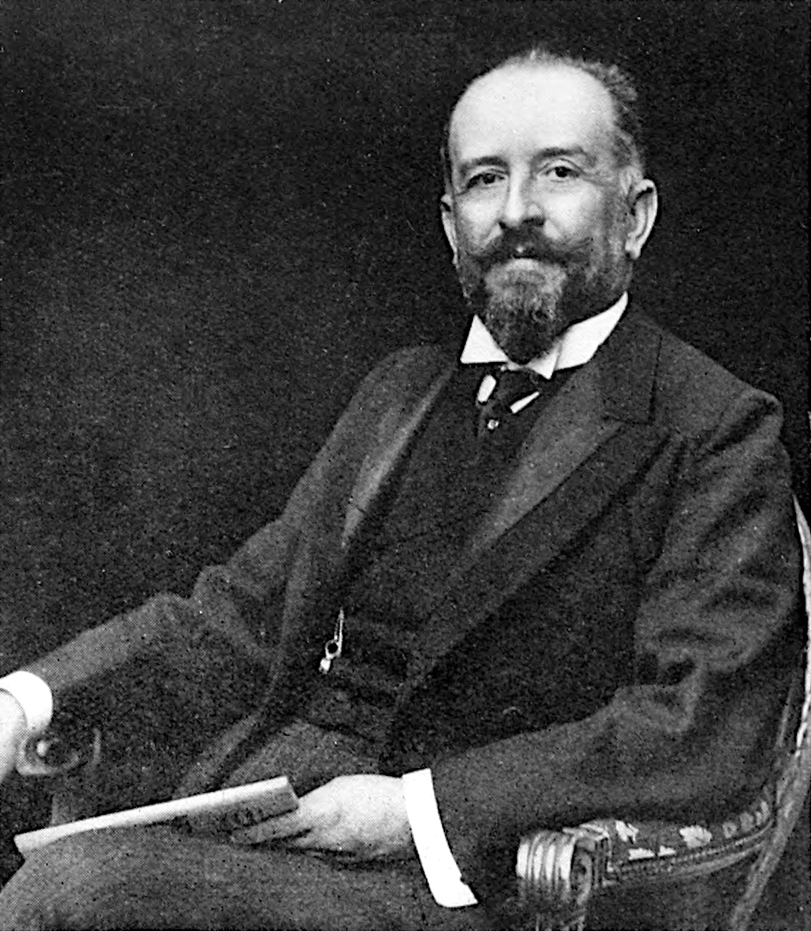 'The Marquis of San Giuliano, Foreign Minister.'